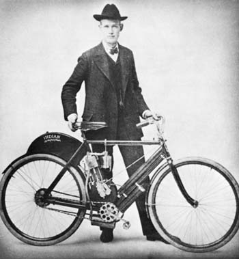 Founder of Indian motorcycles, Carl Oscar Hedström, with the first prototype of Indian. Photograph from 1901.